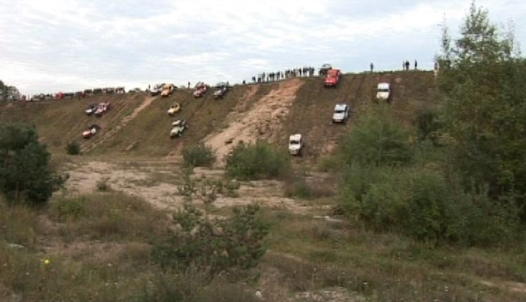 off-road1